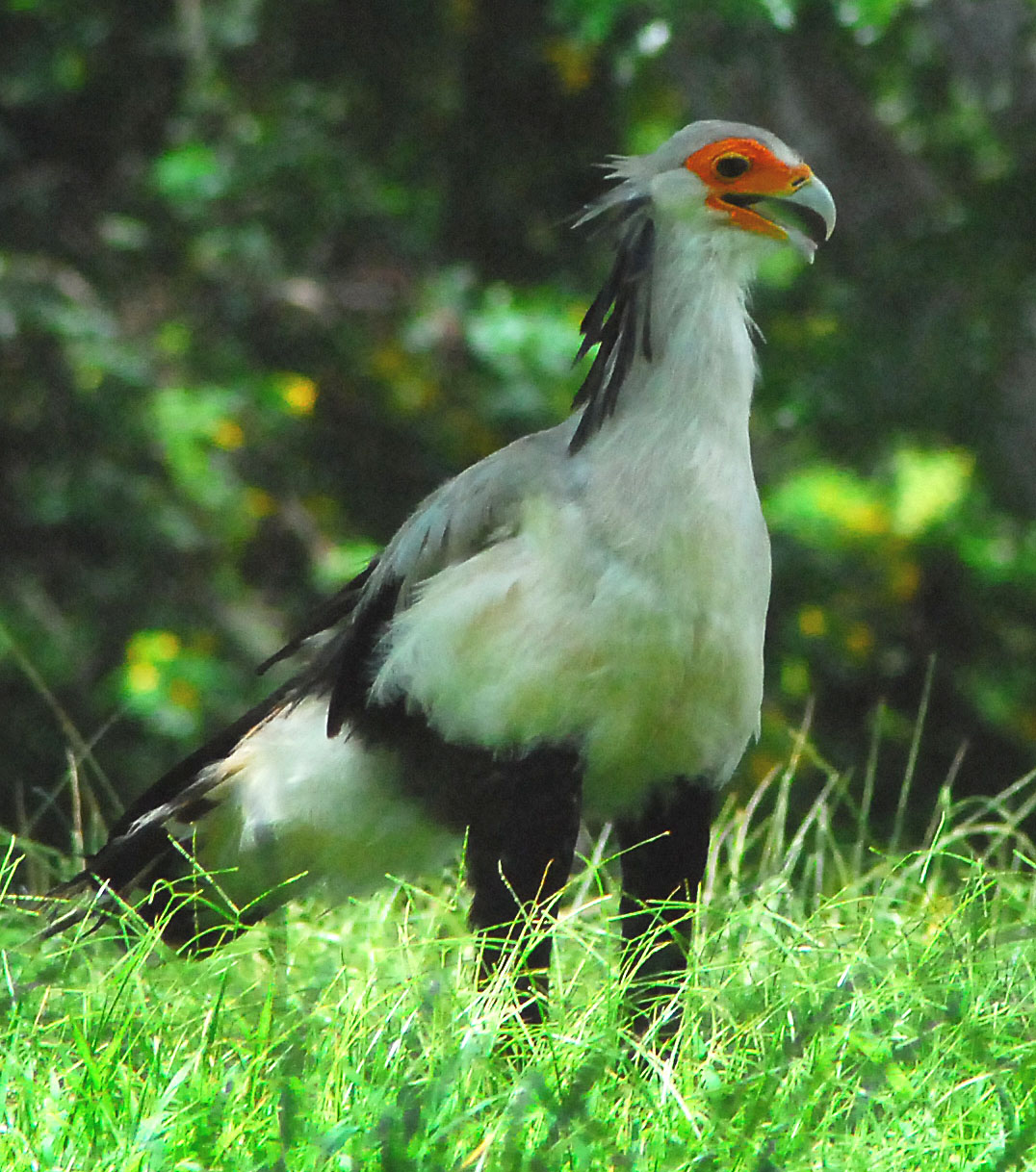 Secretary Bird at Honolulu zoo.